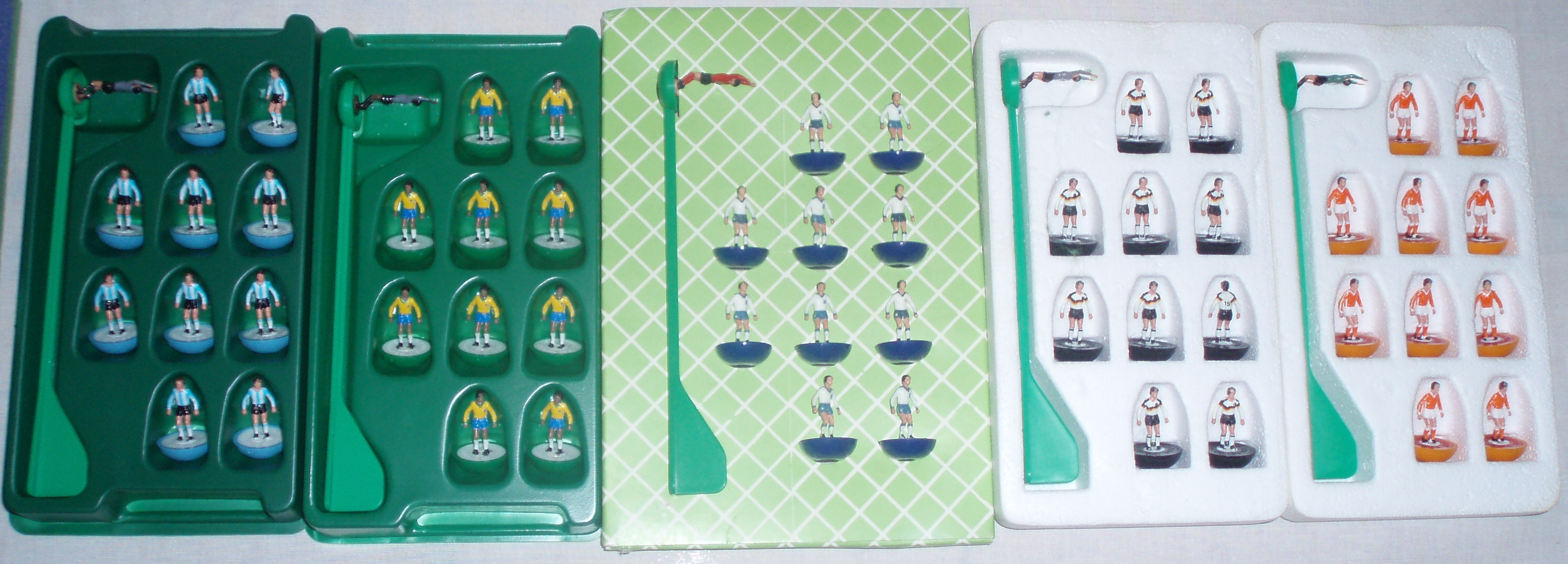 inside subbuteo packs, Argentina, Brazil, England, Germany, Holland